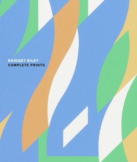 Bridget Riley, Complete Print book